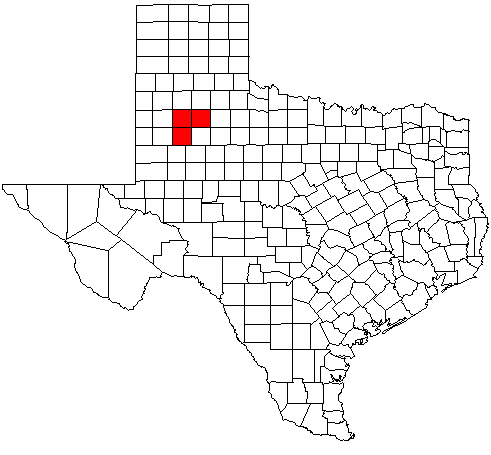 Map of Texas highlighting the Lubbock Metropolitan Statistical Area; created with the GIMP. Made by User:Acntx.